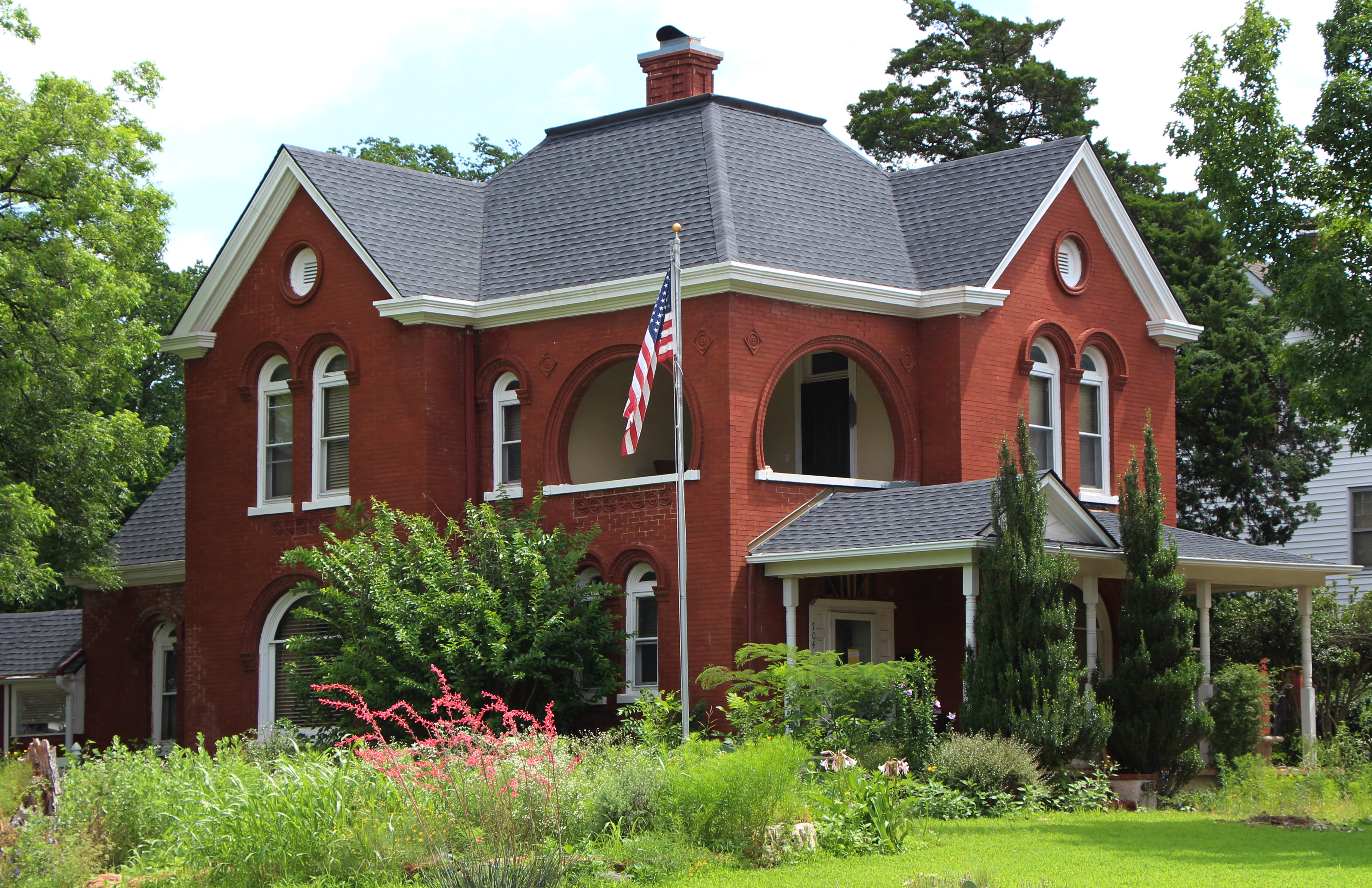 Foucart Designed Private Residence